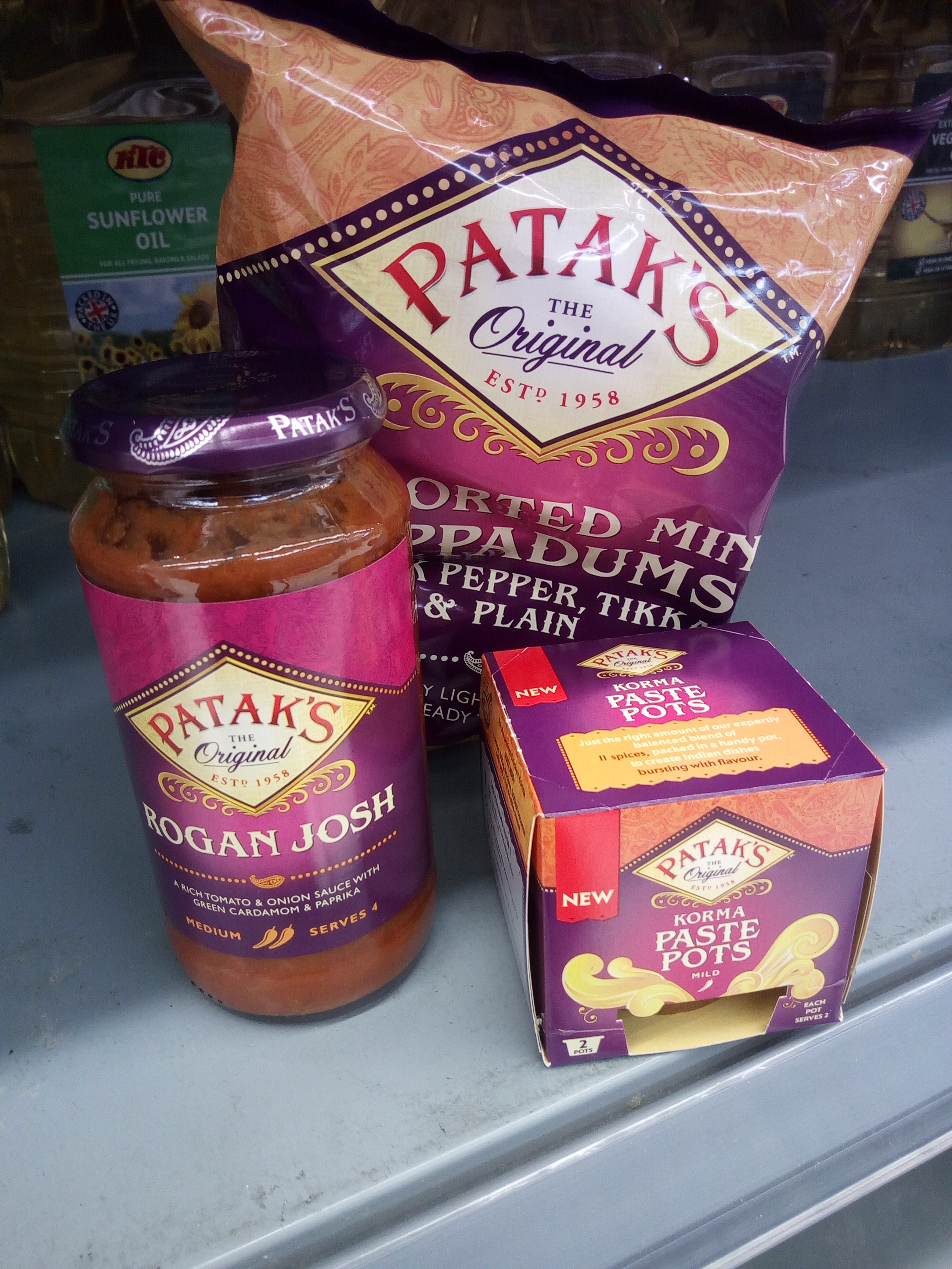 Patak's snacks and foods